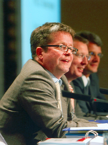 Thomas Hoeren